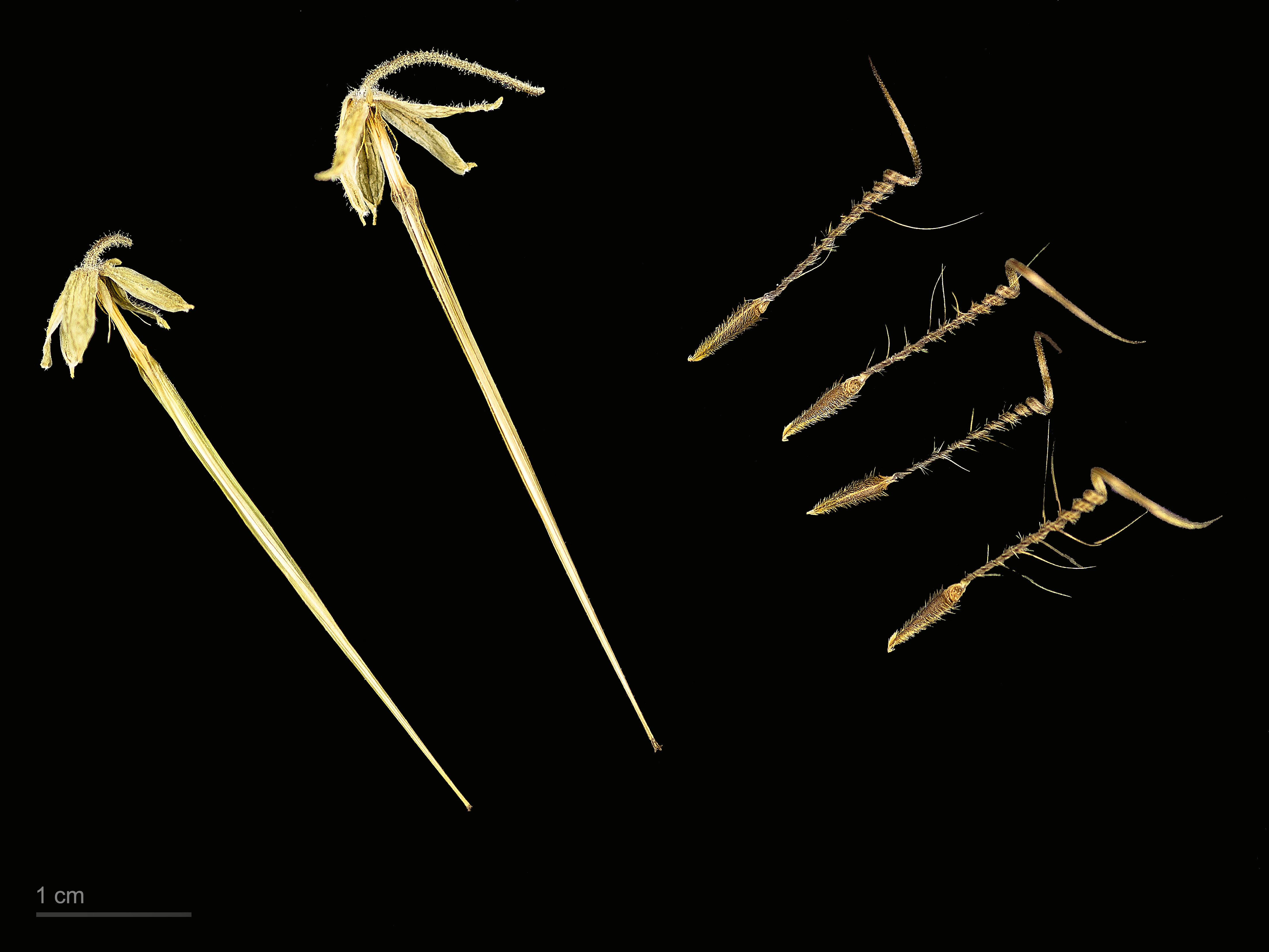 musk stork's-bill, fruits and seeds